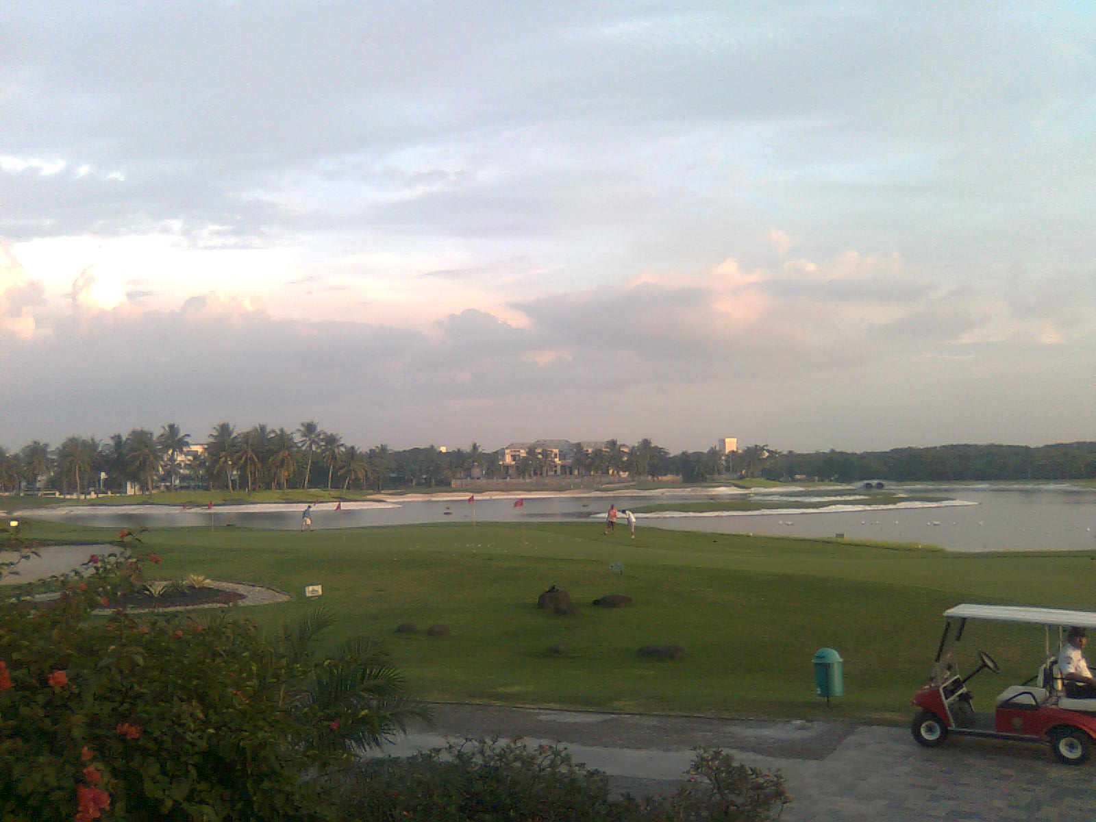 Damai Indah golf course, in North Jakarta, founded by Ciputra